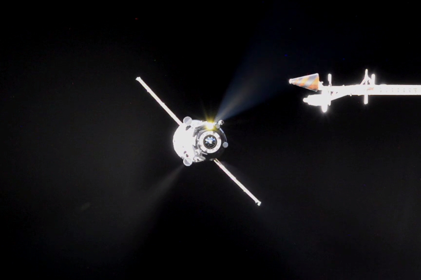 RUSSIAN CARGO SHIP REACHES SPACE STATION The unpiloted Russian ISS Progress 71 cargo ship automatically docked to the aft port of the International Space Station’s Zvezda Service Module Nov. 18 after a two-day journey following its launch from the Baikonur Cosmodrome in Kazakhstan atop a Russian Soyuz booster rocket. Carrying almost three tons of food, fuel and supplies for the station’s residents, the Progress will remain docked to the complex for the next four months.